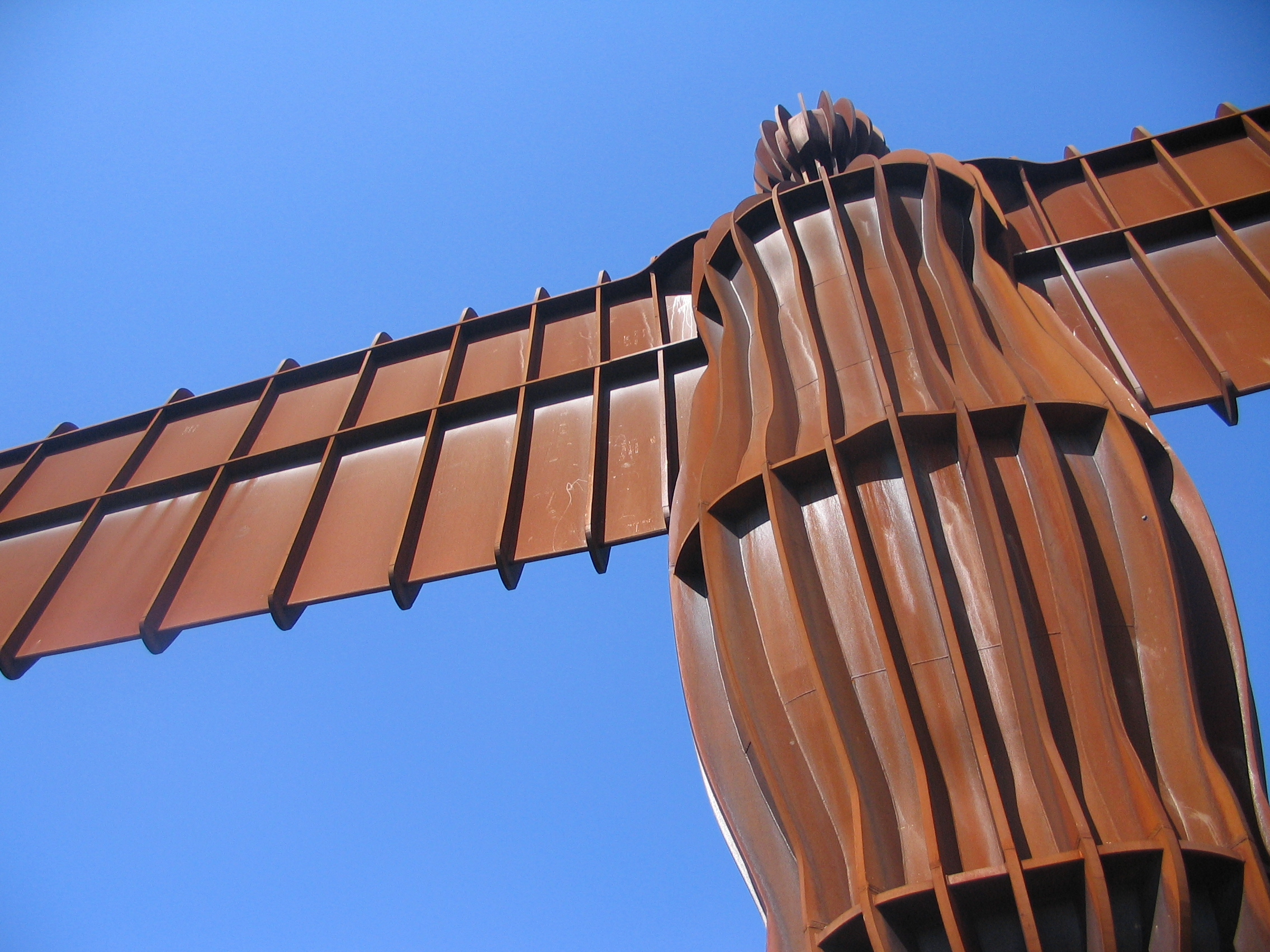 The Angel of the North is a modern sculpture by Anthony Gormley which is situated in Gateshead, UK!